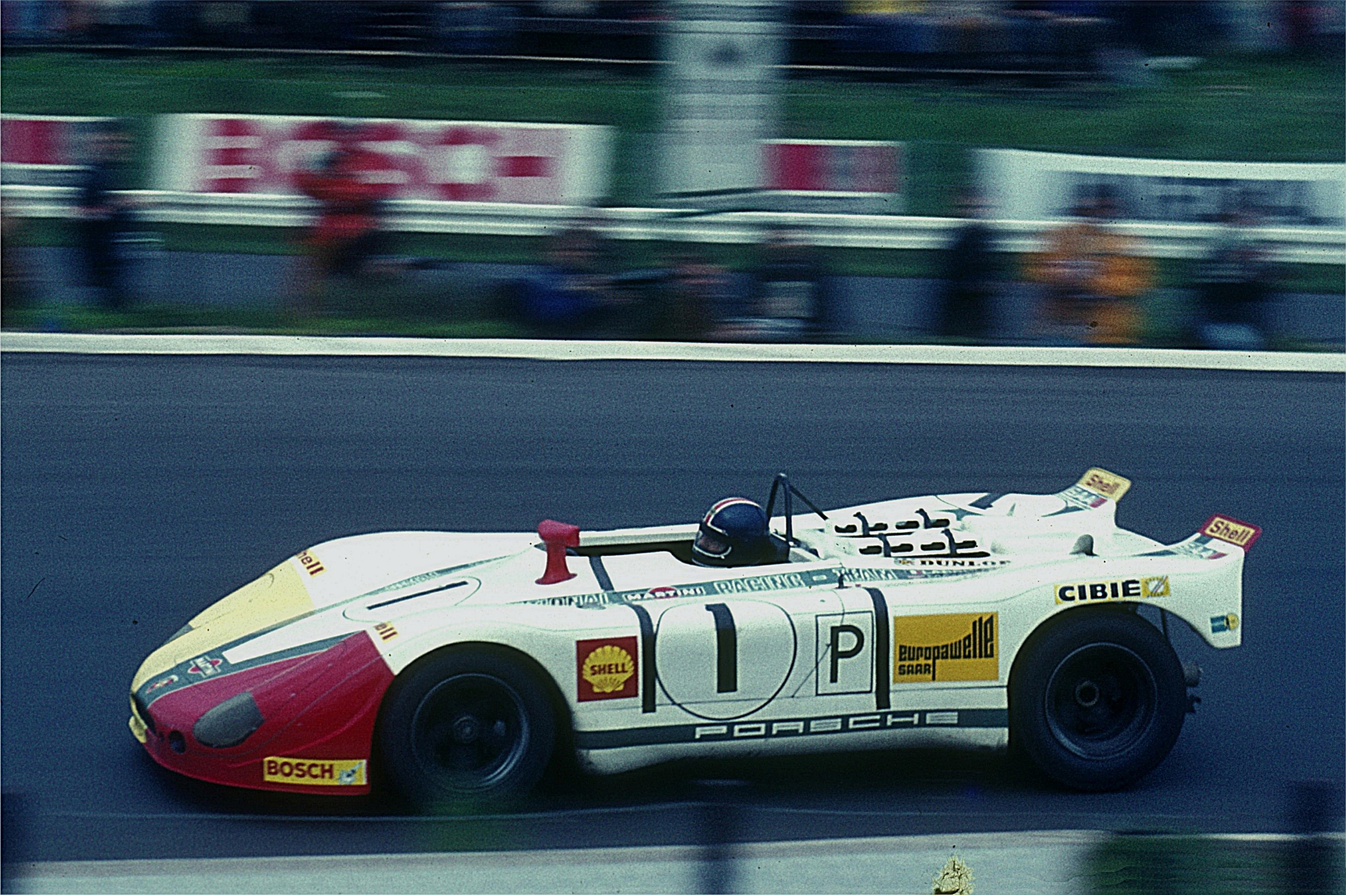 Porsche 908/02 driven by Gérard Larrousse.